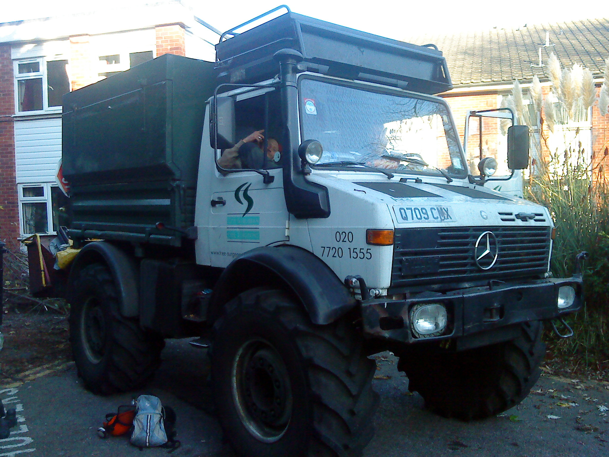 Unimog used by arboriculture company, London